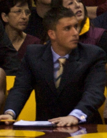 University of Minnesota men's basketball graduate manager and former player Ryan Saunders works the Jan. 3, 2009 game vs. Ohio State.